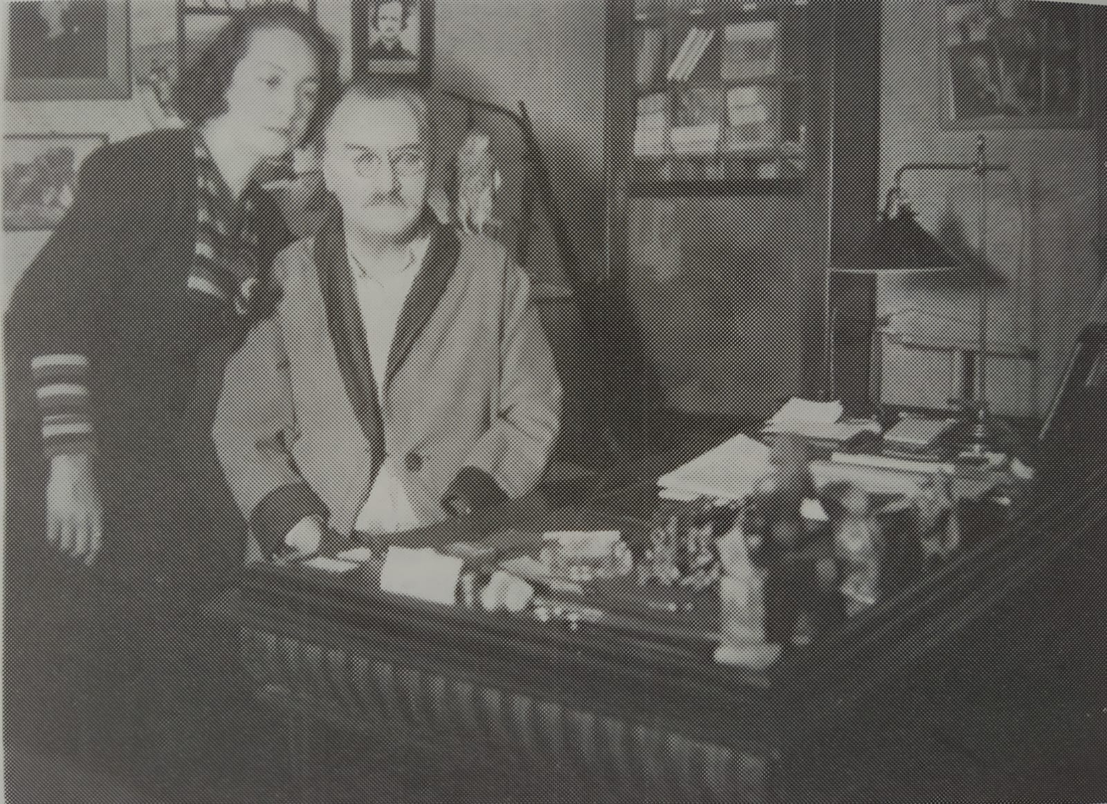 Stevan Bešević, Serbian journalist and lawyer, and his daughter Milica, academic painter.